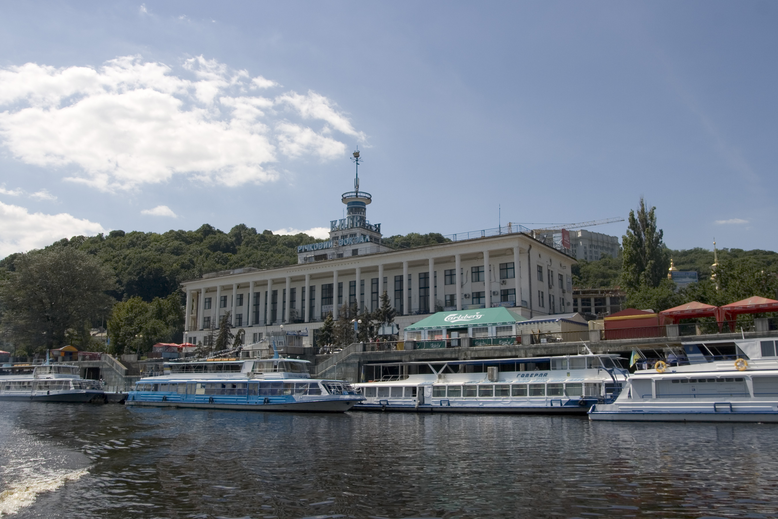 Kiev River Port